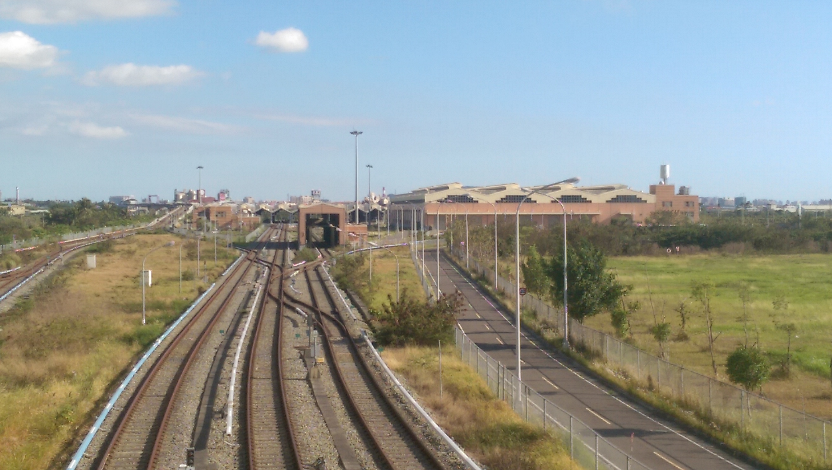 Kaohsiung MRT North Depot viewed from Gangshan South Station